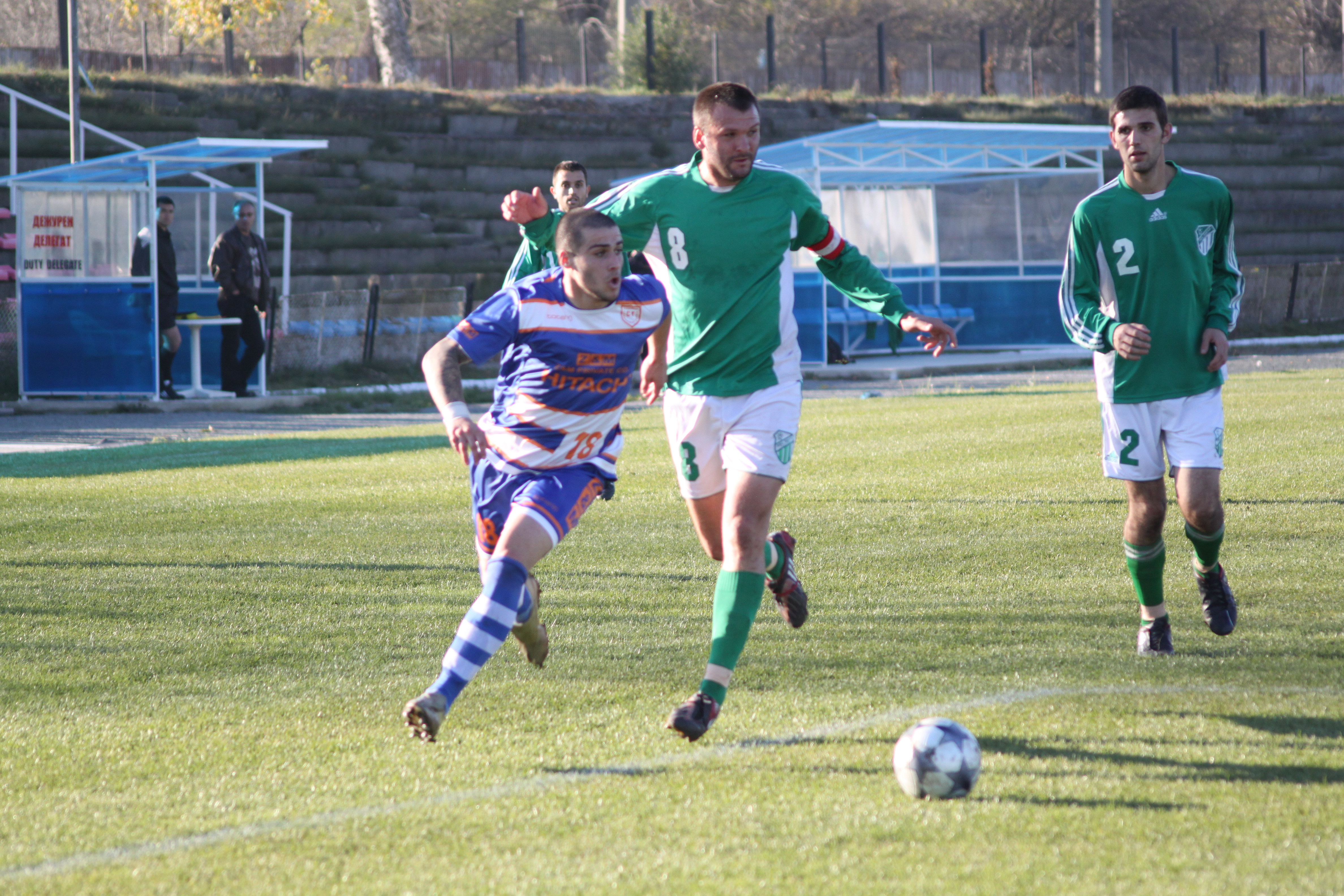 Hebar Pazardzhik vs Slivnishki geroi